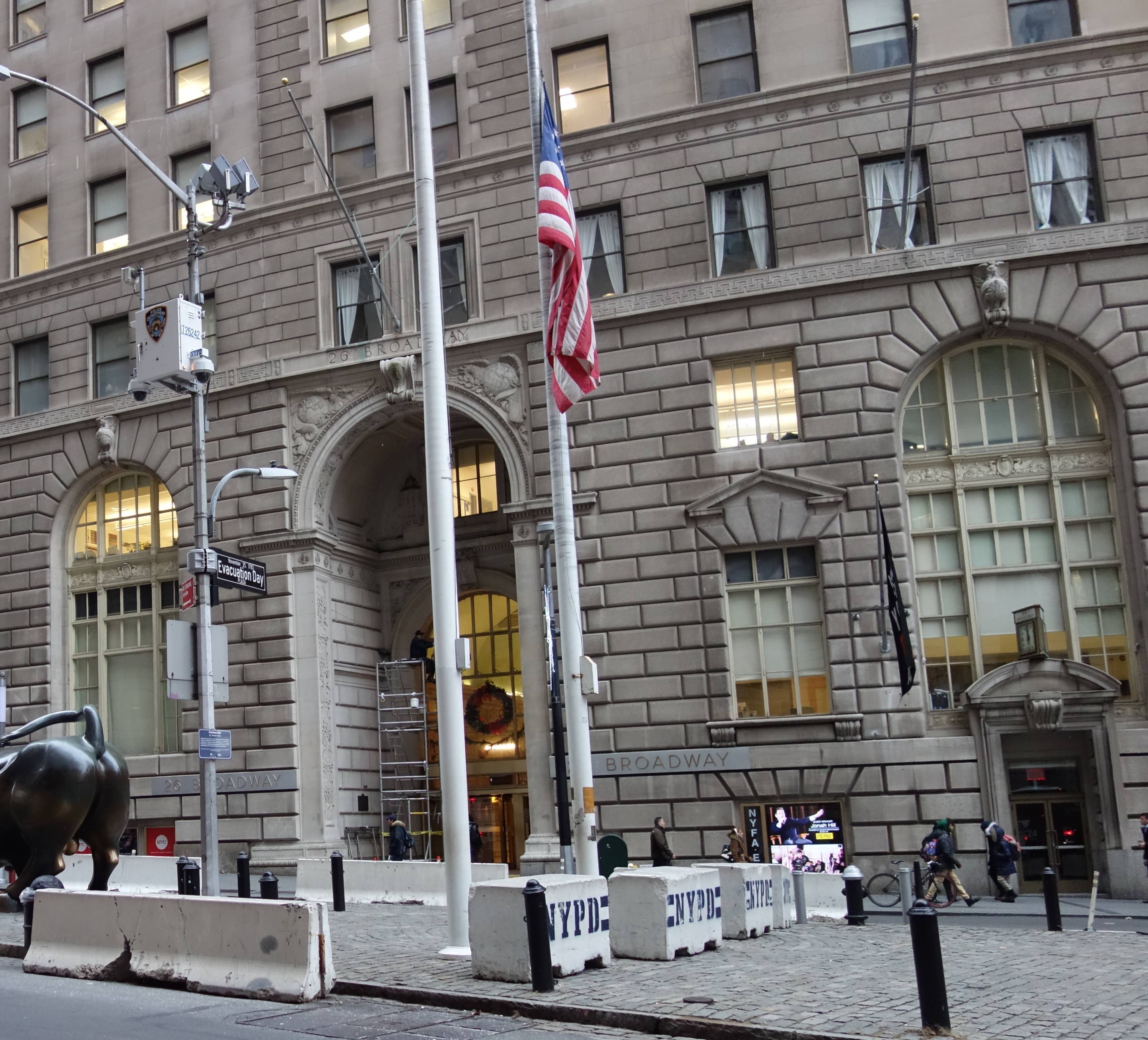 Looking west towards 26 Broadway and the Charging Bull at Broadway and Morris Street in Bowling Green, Financial District, Manhattan. This is one of the few times where tourists haven't completely surrounded the bull statue.